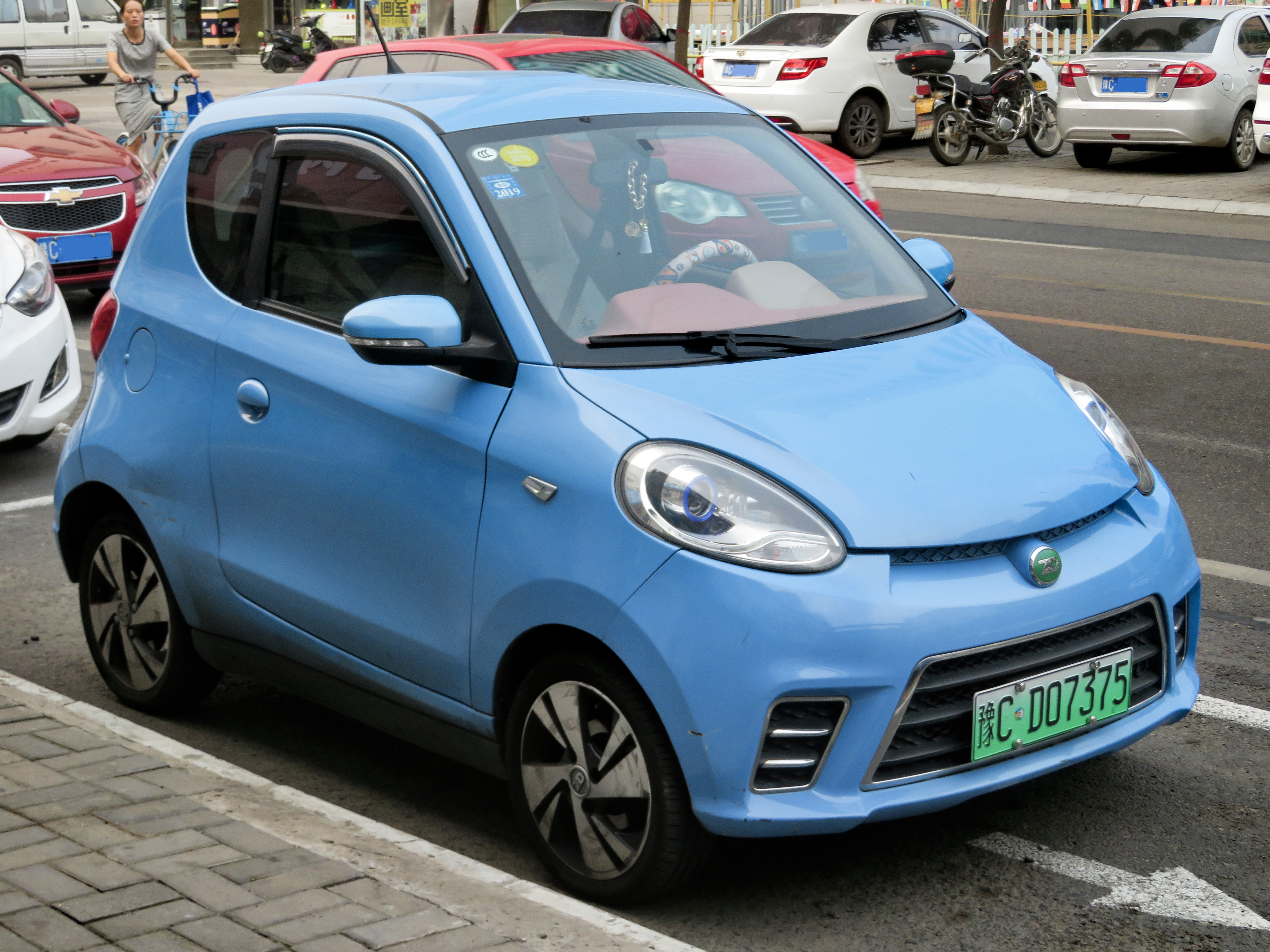 A 2017 Geely-Zhidou D2 photographed in Xigong District, Luoyang, Henan province, China